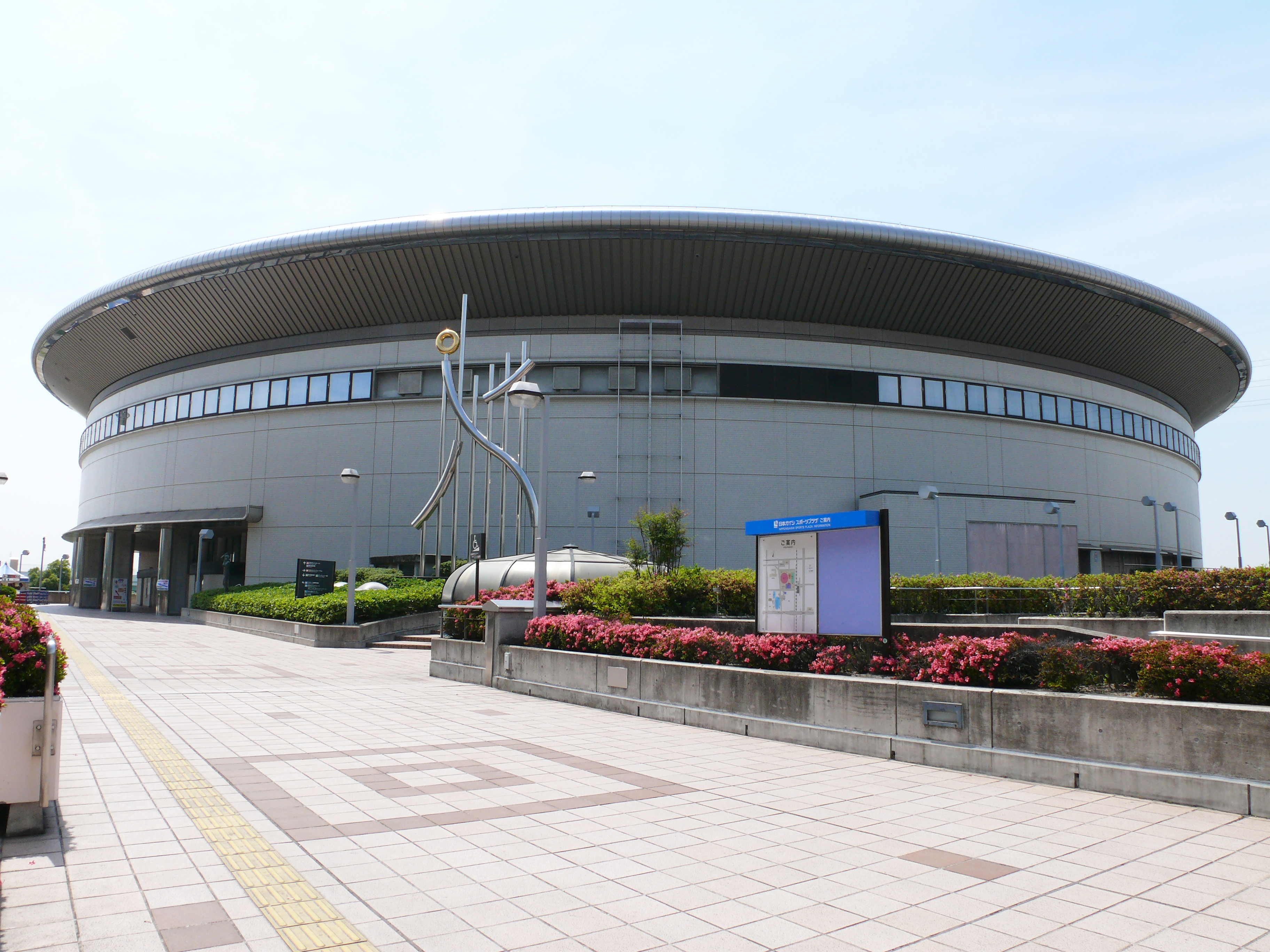 Nagoya City Sports Complex（Nagoya Rainbow Hall）.